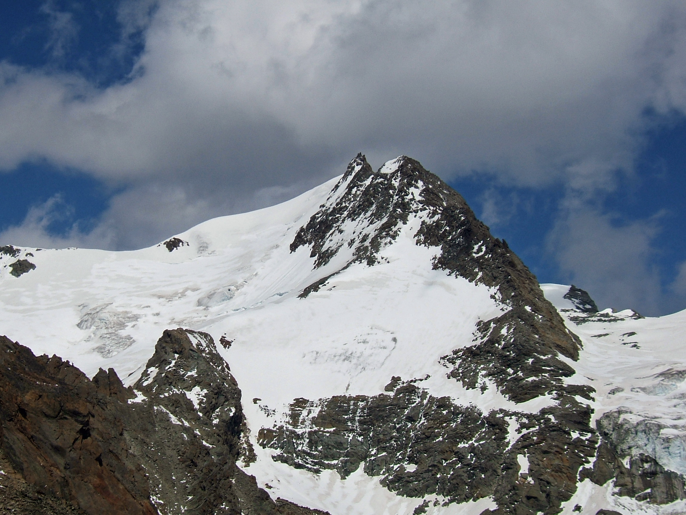 Fletschhorn from southwest, from Jegihorn